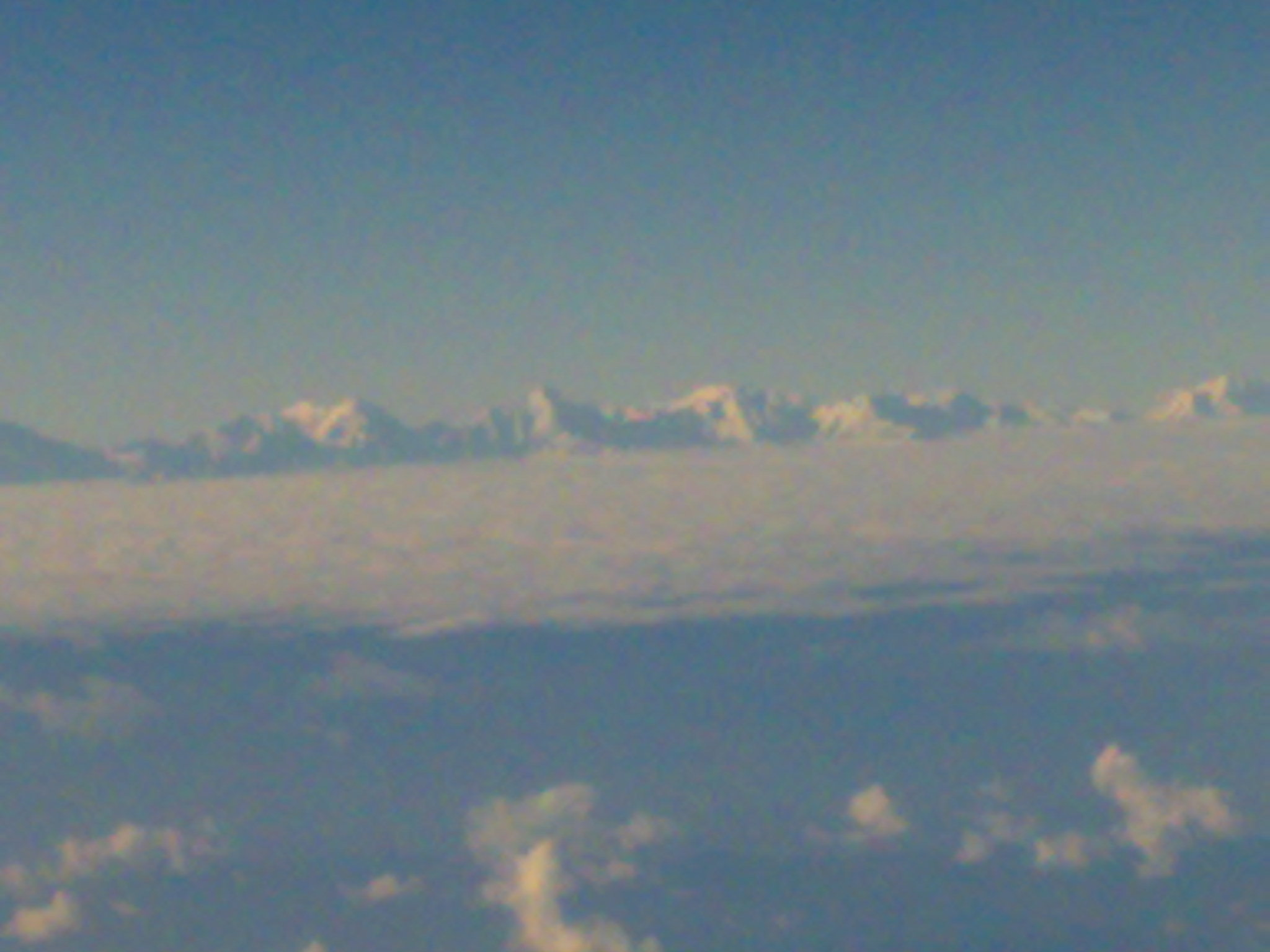 The Himalayan range bordering Arunachal Pradesh. Picture taken from aircarft while travelling from Dibrugarh to Guwahati